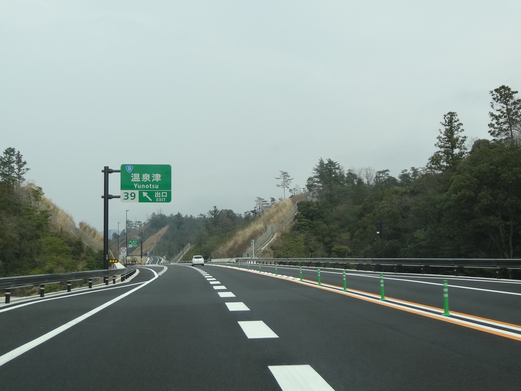 The San-in Expressway in Yunotsu, Oda City, Shimane Prefecture, Japan.